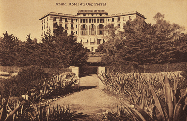 Grand-Hotel du Cap-Ferrat at the beginning of the 20th century